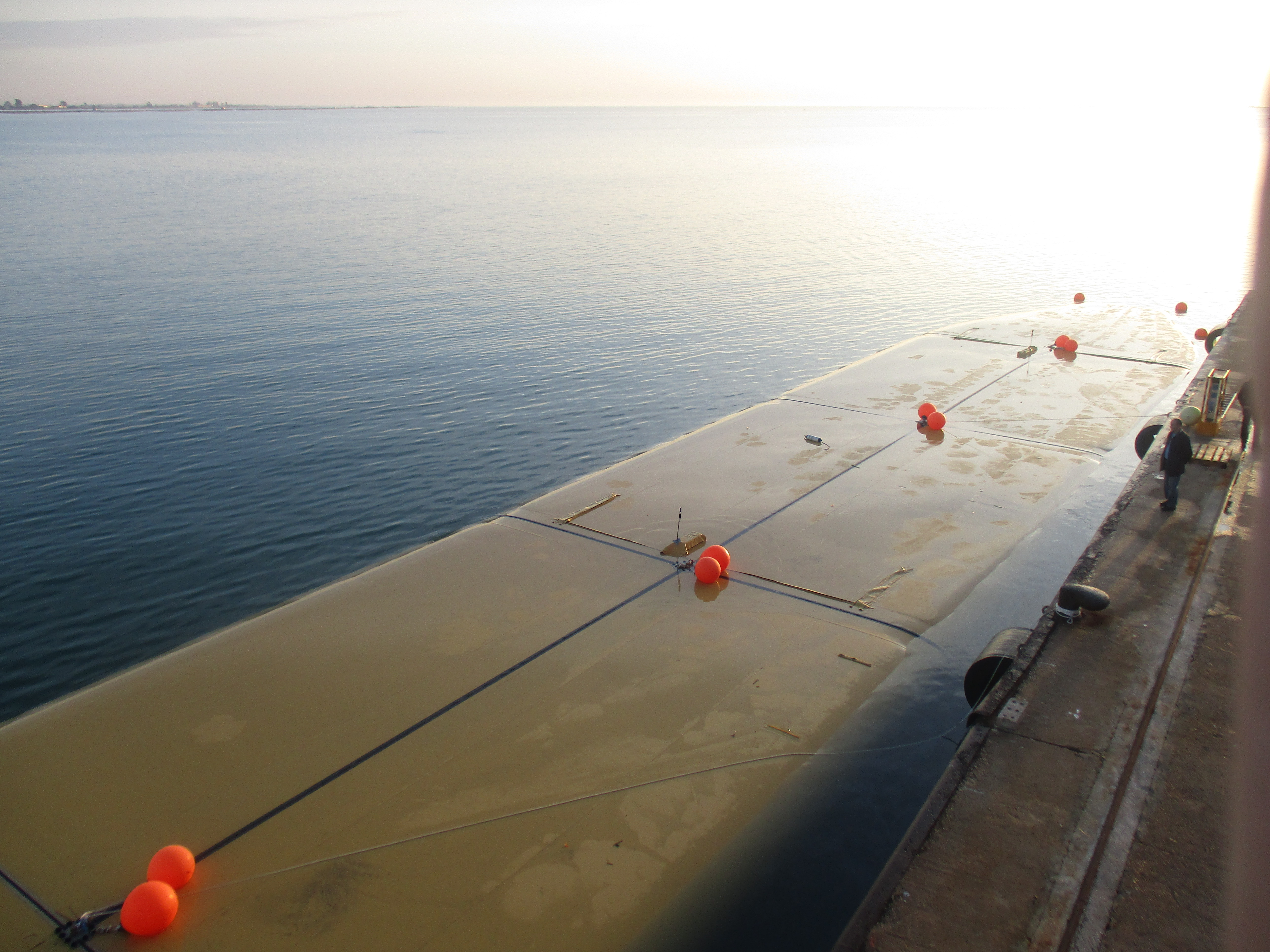 60 m long REFRESH waterbag moored